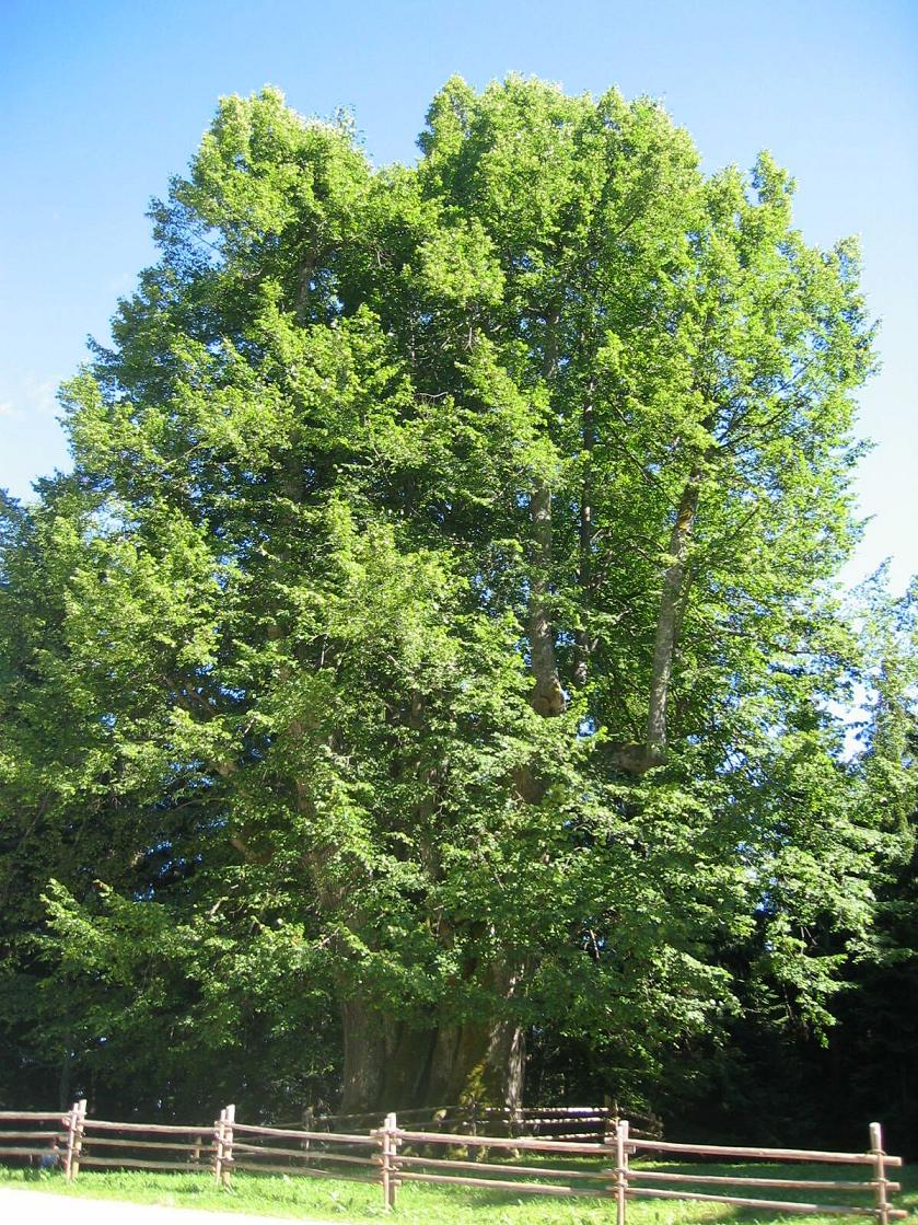 The Najevnik Linden Tree, the tree with the largest girth in Slovenia. It is an about 700 years old Tilia cordata. It serves as a place of cultural events, and a national political meeting takes place there every June.[1]